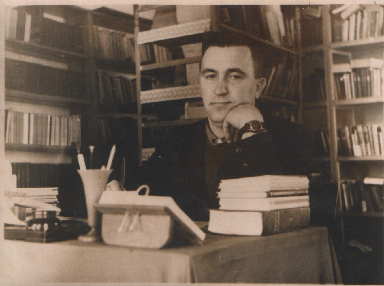 Володимир Шейновський